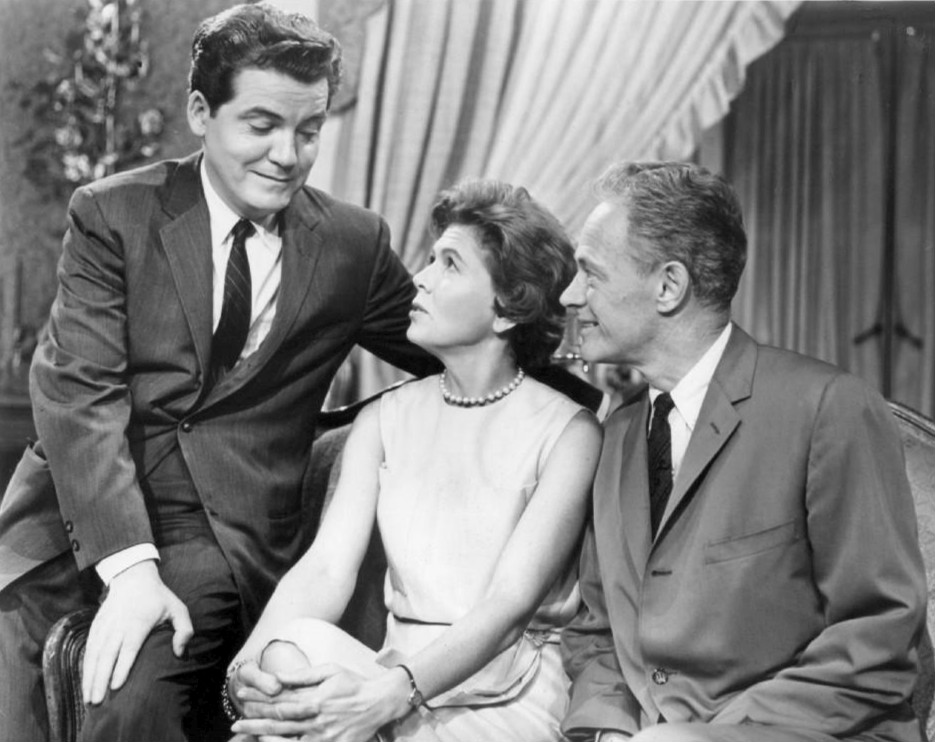 Cast photo from the television daytime drama Young Doctor Malone. From left-John Connell, Augusta Dabney, William Prince.